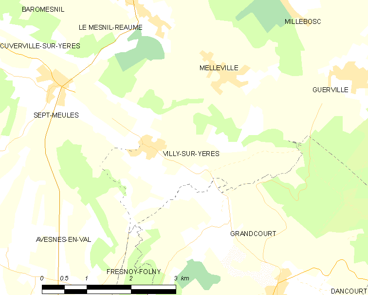 Map of French municipality Villy-sur-Yères